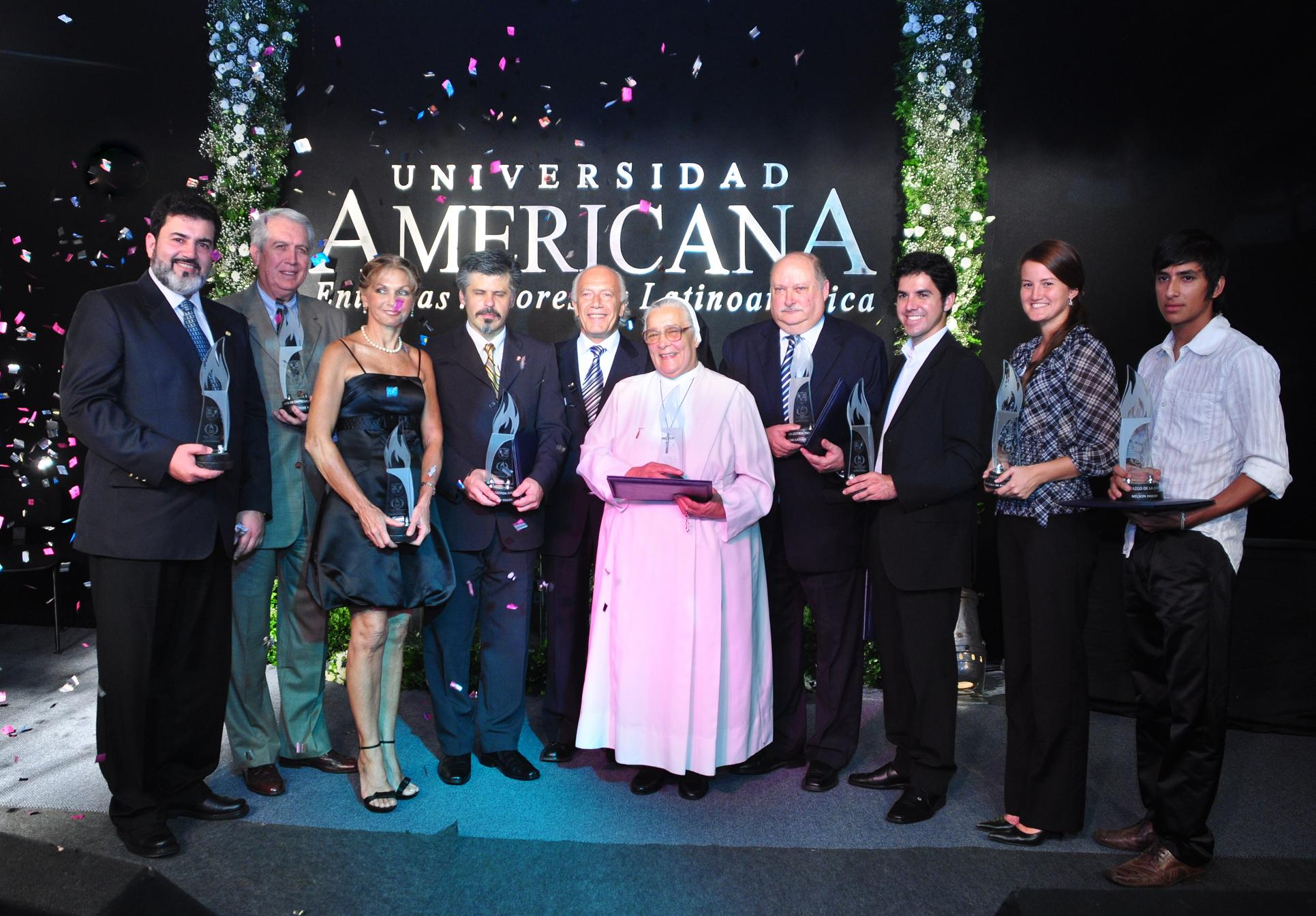 Salemma entre los 10 líderes del Paraguay